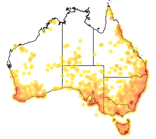 Distribution range of Myrmecia. This map shows the occurrence records known as of 22 May 2015.